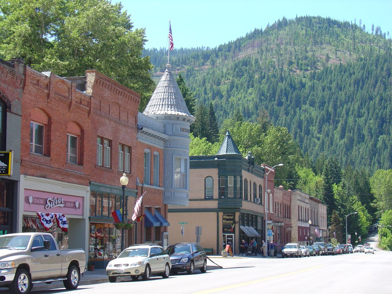 In downtown Wallace, Idaho, USA